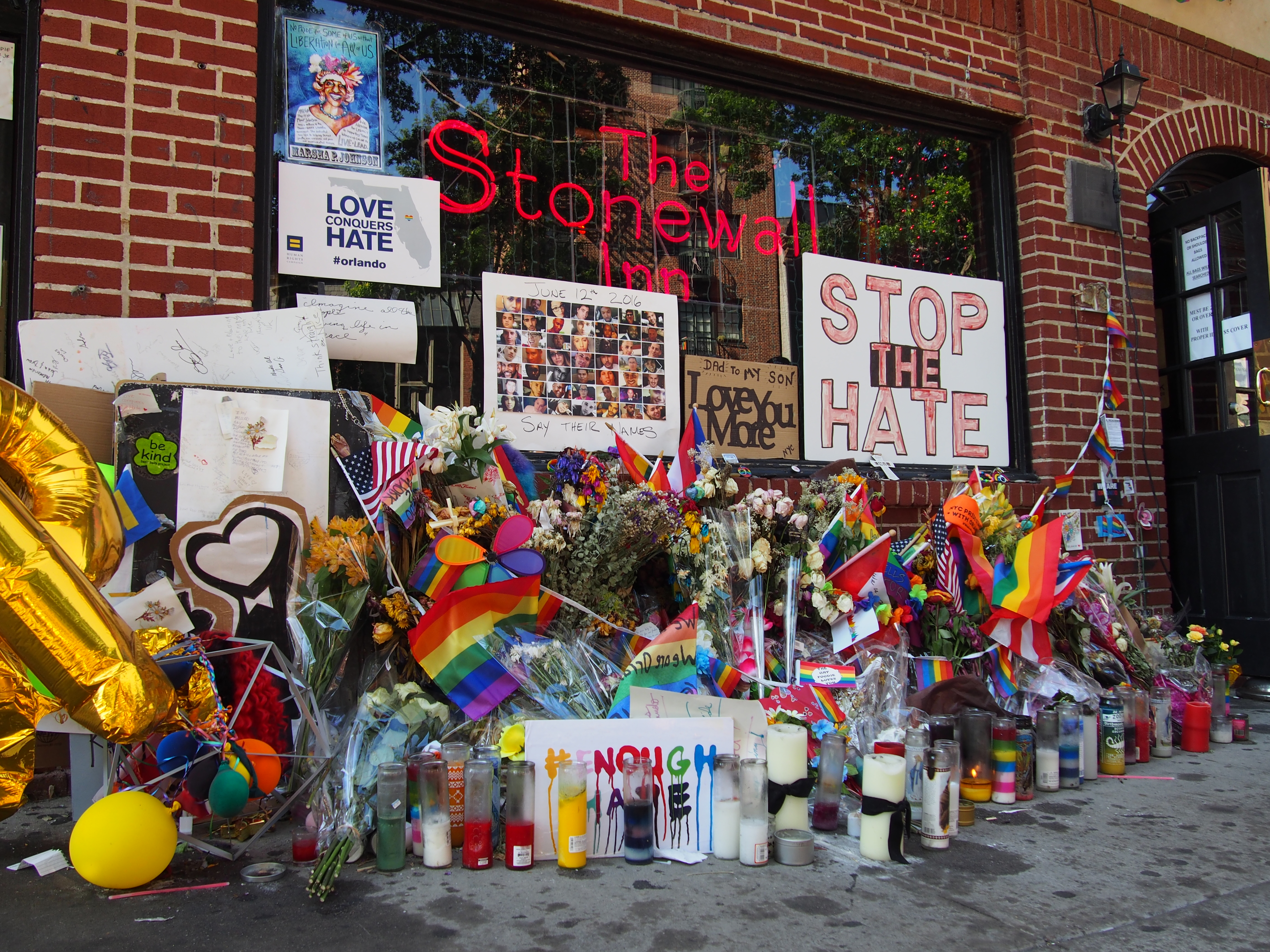 Stonewall Inn, a gay bar on Christopher Street in Manhattan's Greenwich Village. A 1969 police raid here led to the Stonewall riots, one of the most important events in the history of LGBT rights (and the history of the United States). This picture was taken on pride weekend in 2016, the day after President Obama announced the Stonewall National Monument, and less than two weeks after the Pulse nightclub shooting in Orlando.